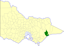 Location of the Shire of Bairnsdale within Victoria.